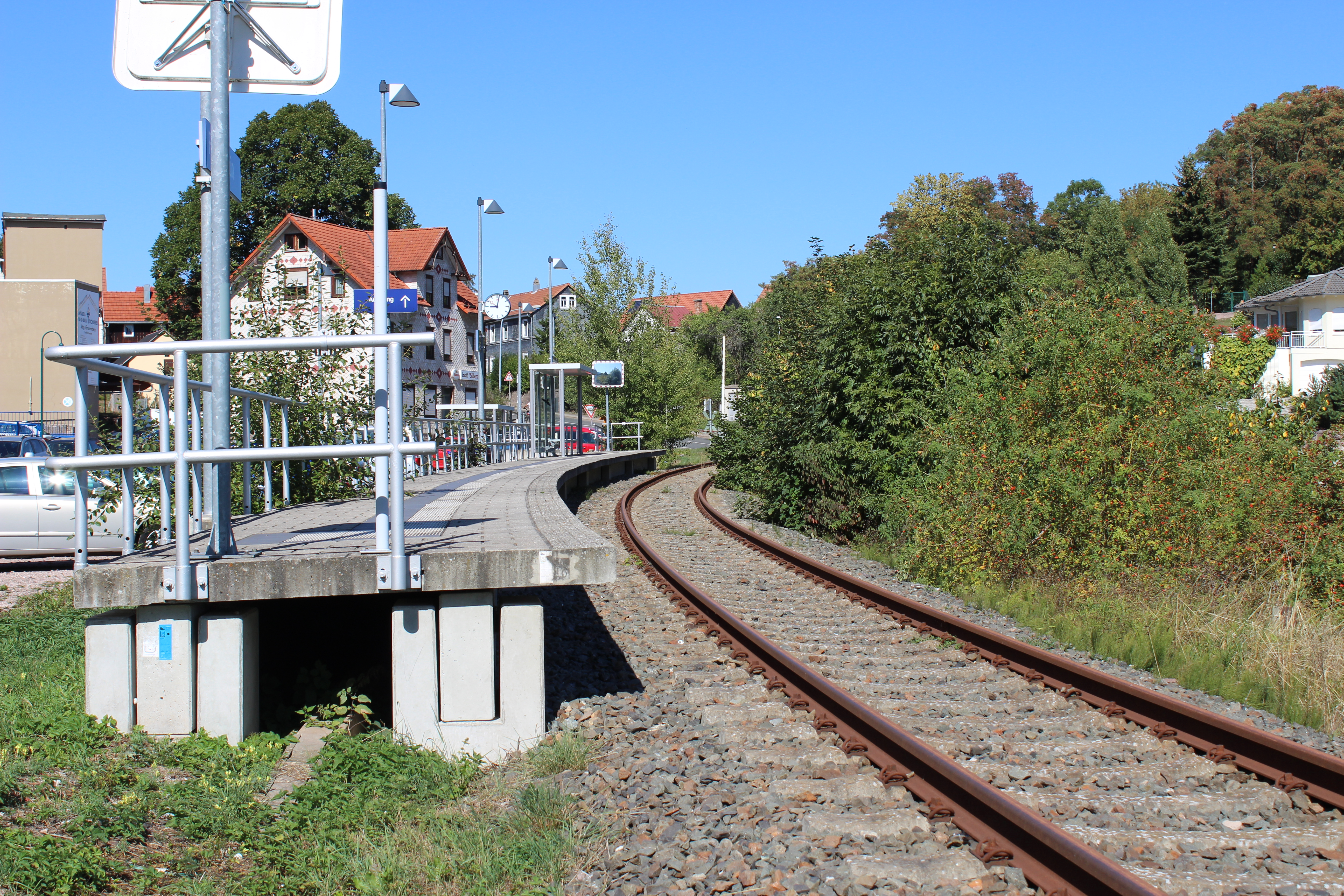 train station Frankenhain